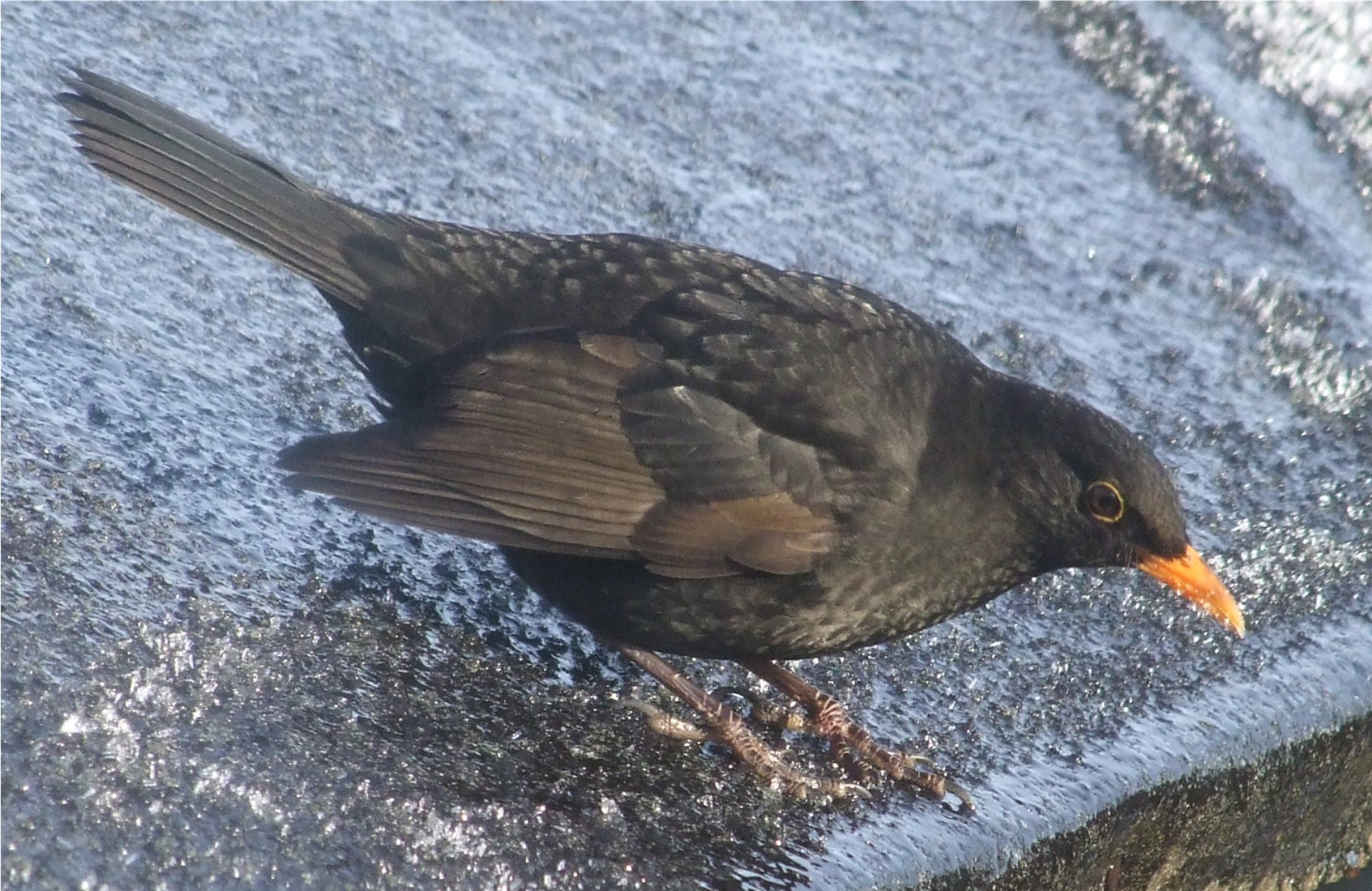 Visitors to my garden, in Staffordshire Moorlands